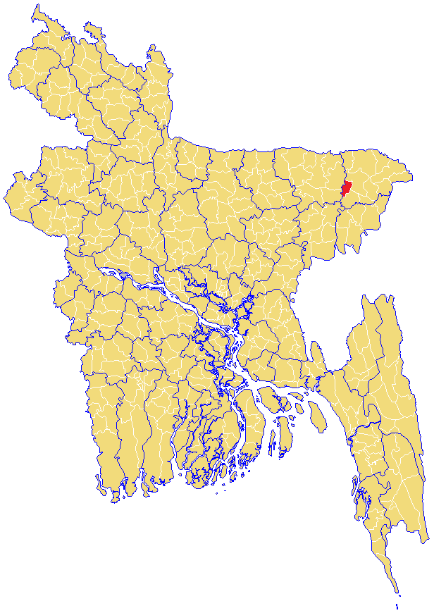 Map of Bishwanath Upazila in Sylhet District, Bangladesh